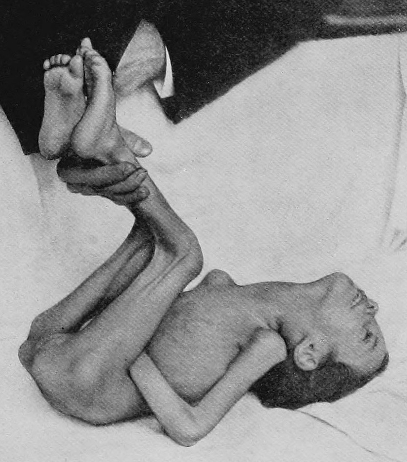 Plate 12. Kernig's sign in a case of cerebrospinal meningitis. Note the contractures of ham-string muscles, the retraction of the head, the expression of suffering produced by the examiner's effort to extend the lower leg, and the pronounced emaciation. (Harlem Hospital, Dr. R. G. Wiener)